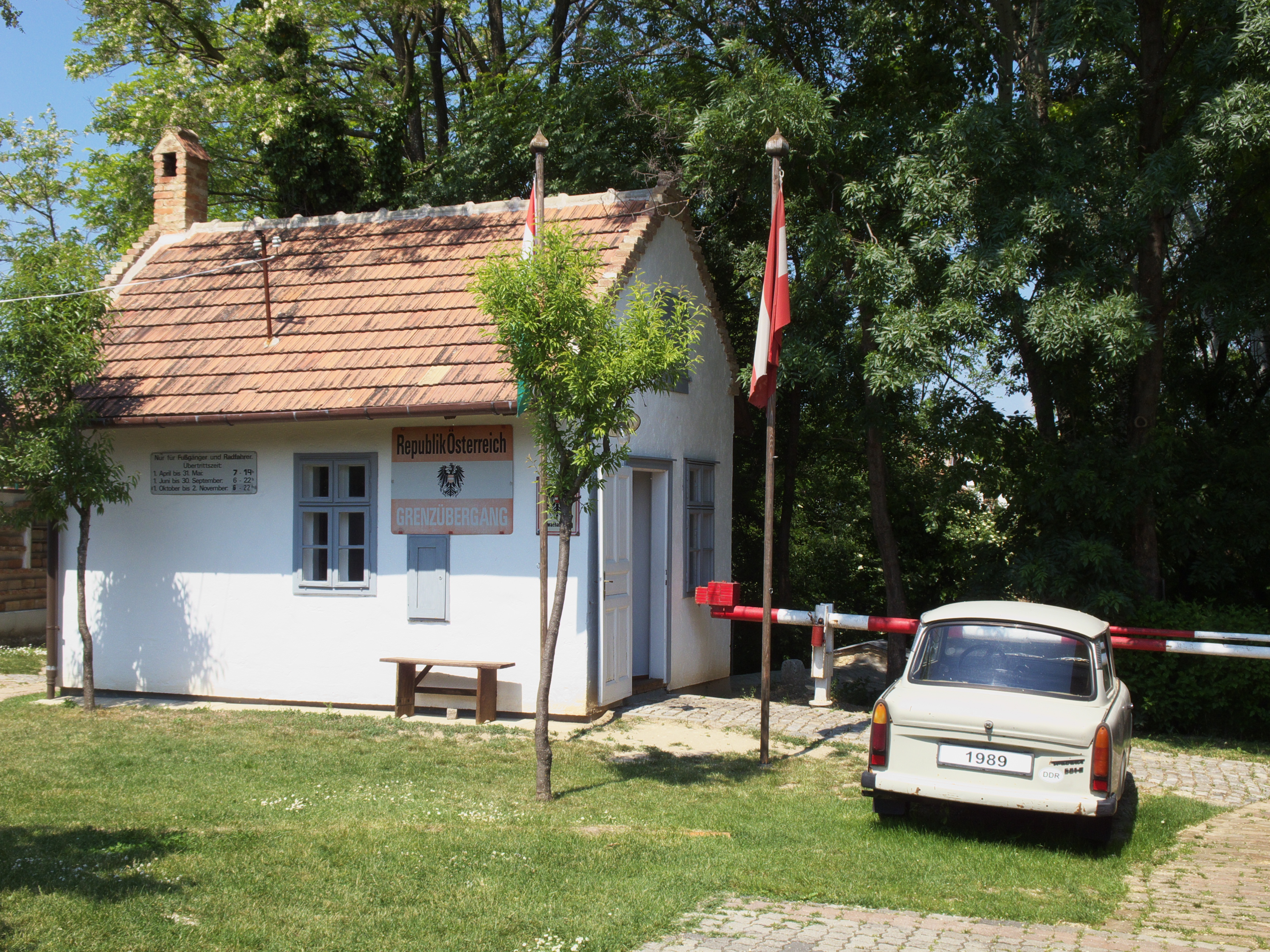 The former customs building of Andau and a Trabant 601 are now exhibits in the Mönchhof village museum.